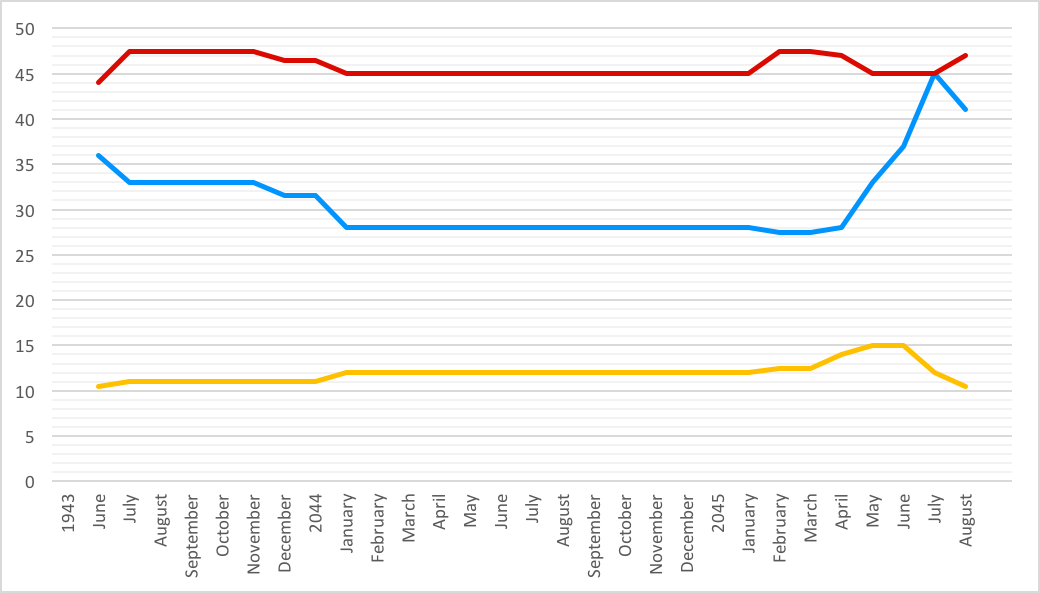 All UK opinion polls up to the 1945 UK general election.